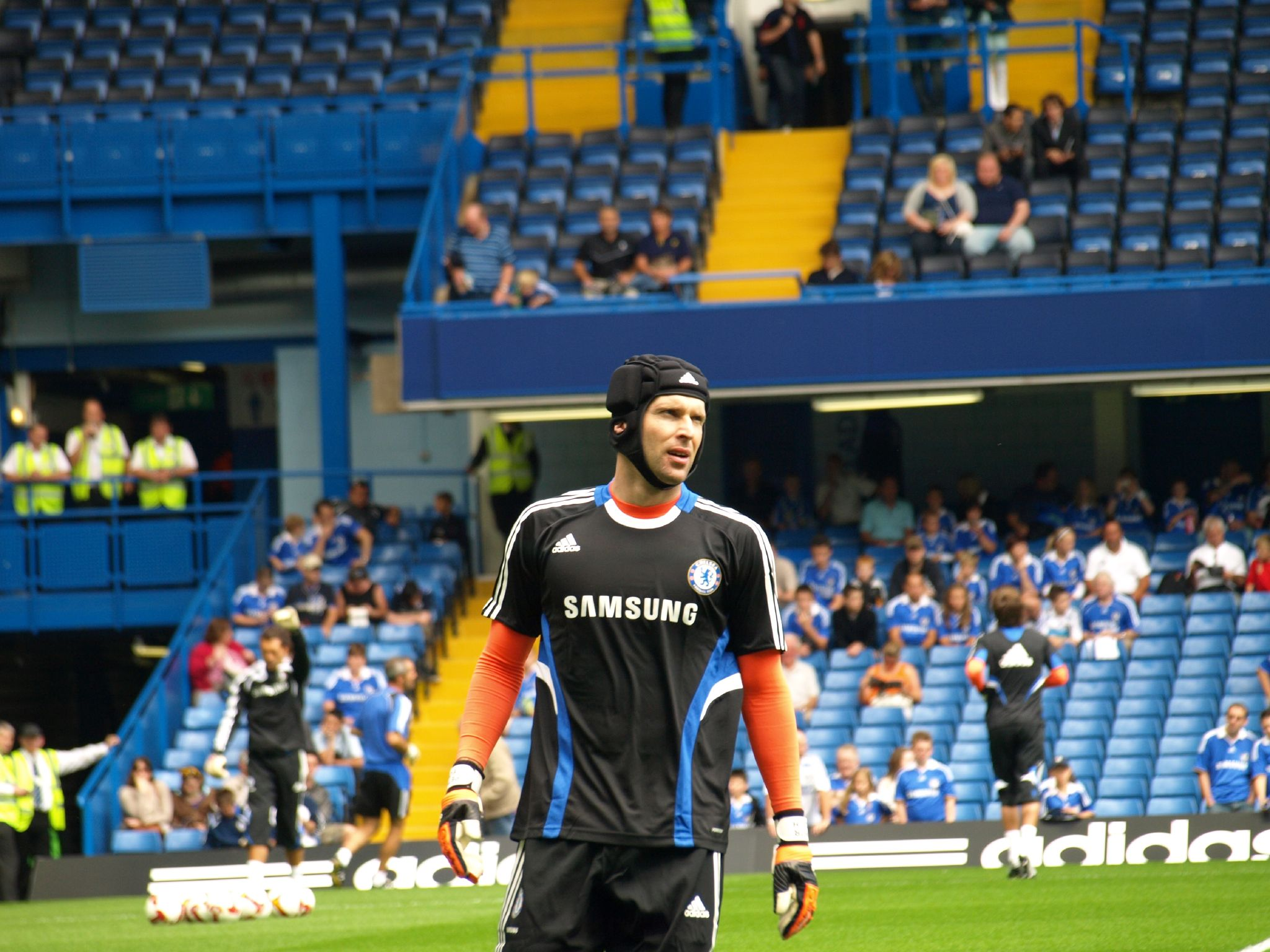 petr Cech training